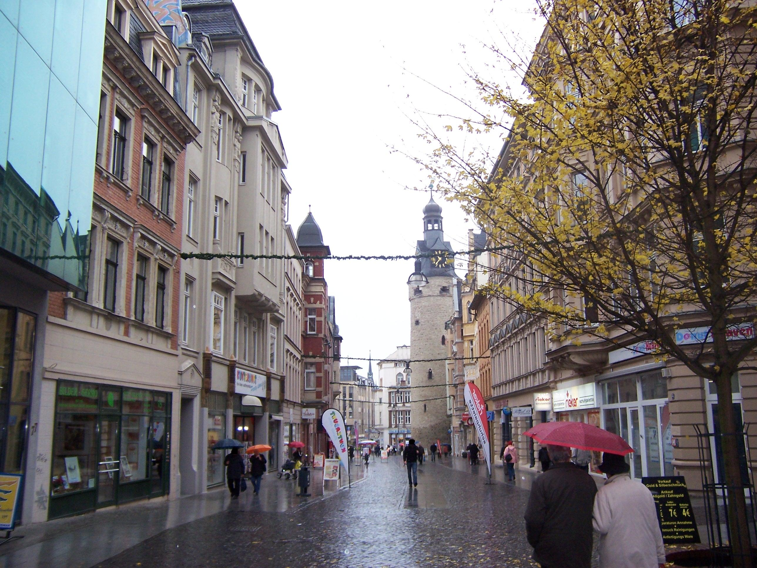 Leipziger Str.